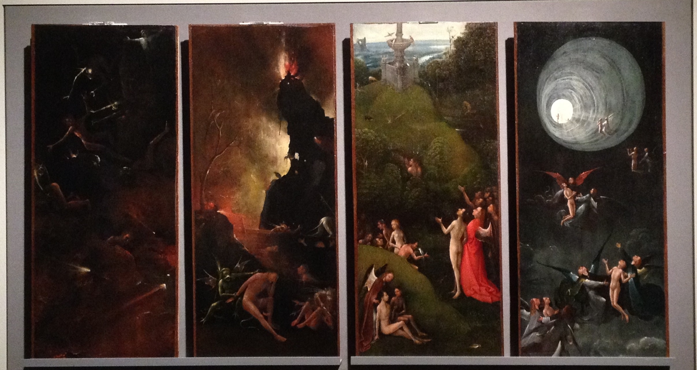 The so-called Afterlife Panels of the wings of a putative Cardinal Grimani's Altarpiece in the horizontal arrangement proposed in Palazzo Grimani's Museum in Venice